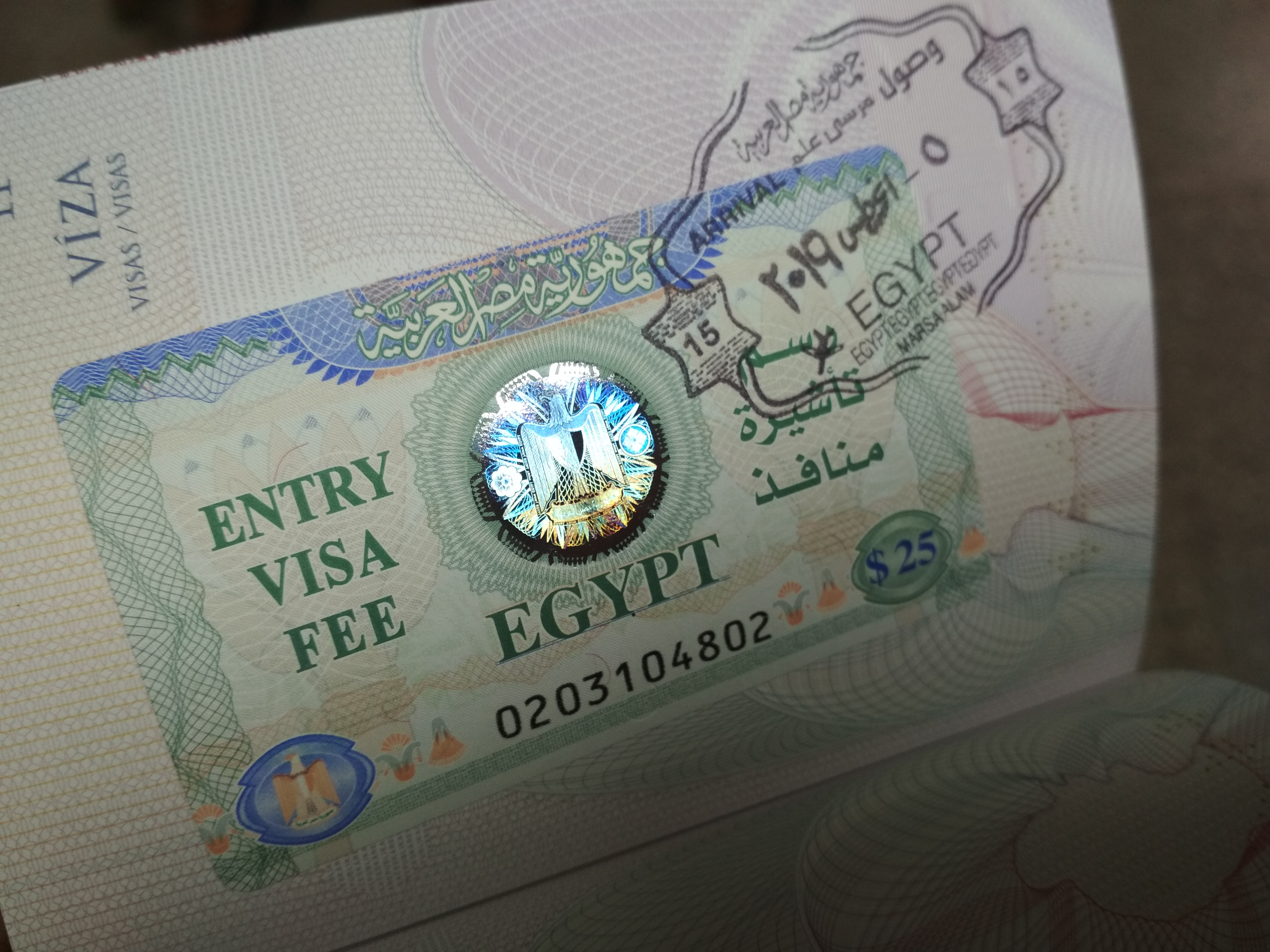 Entry visa of Egypt in Czech passport.